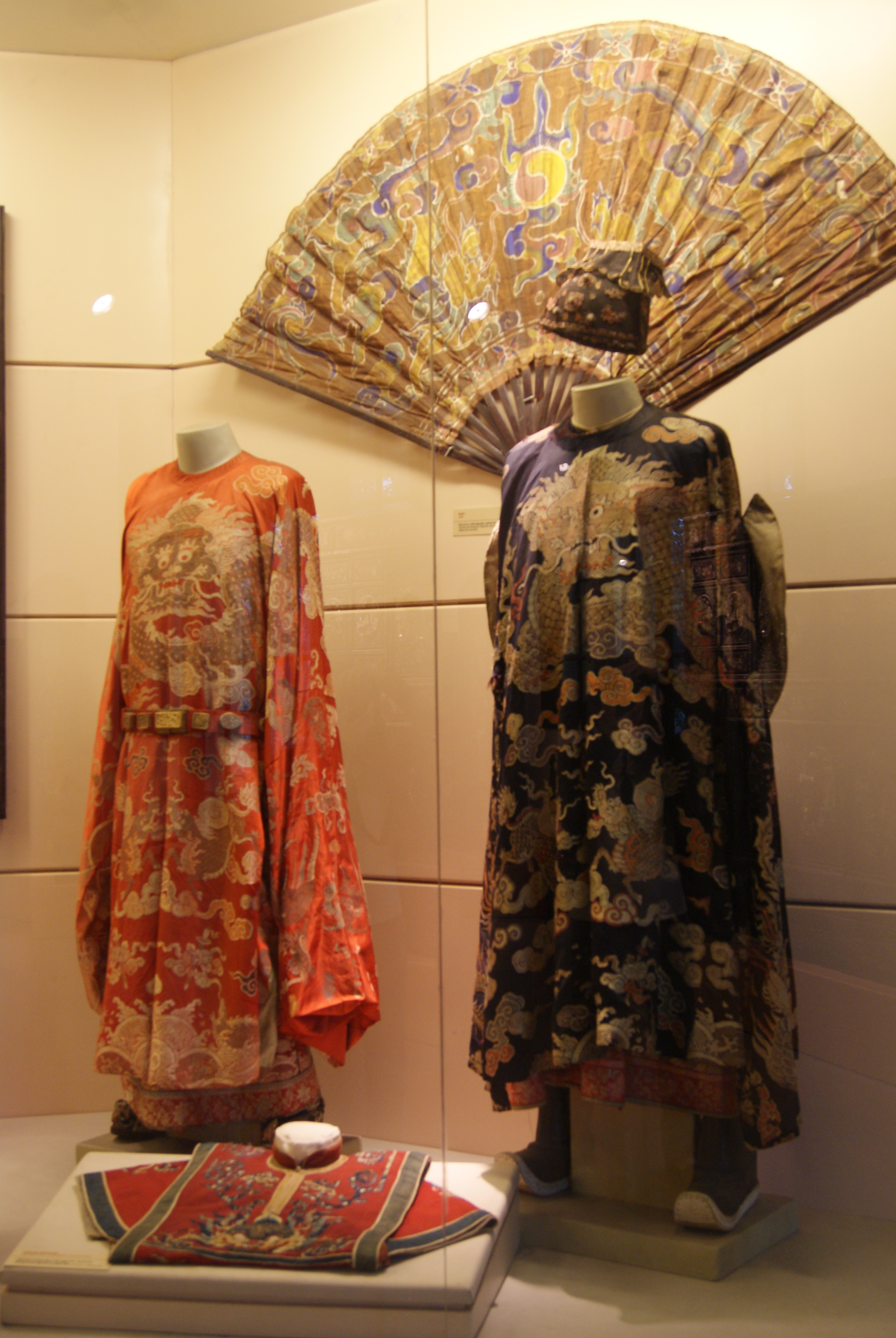 Nguyen dynasty court attires